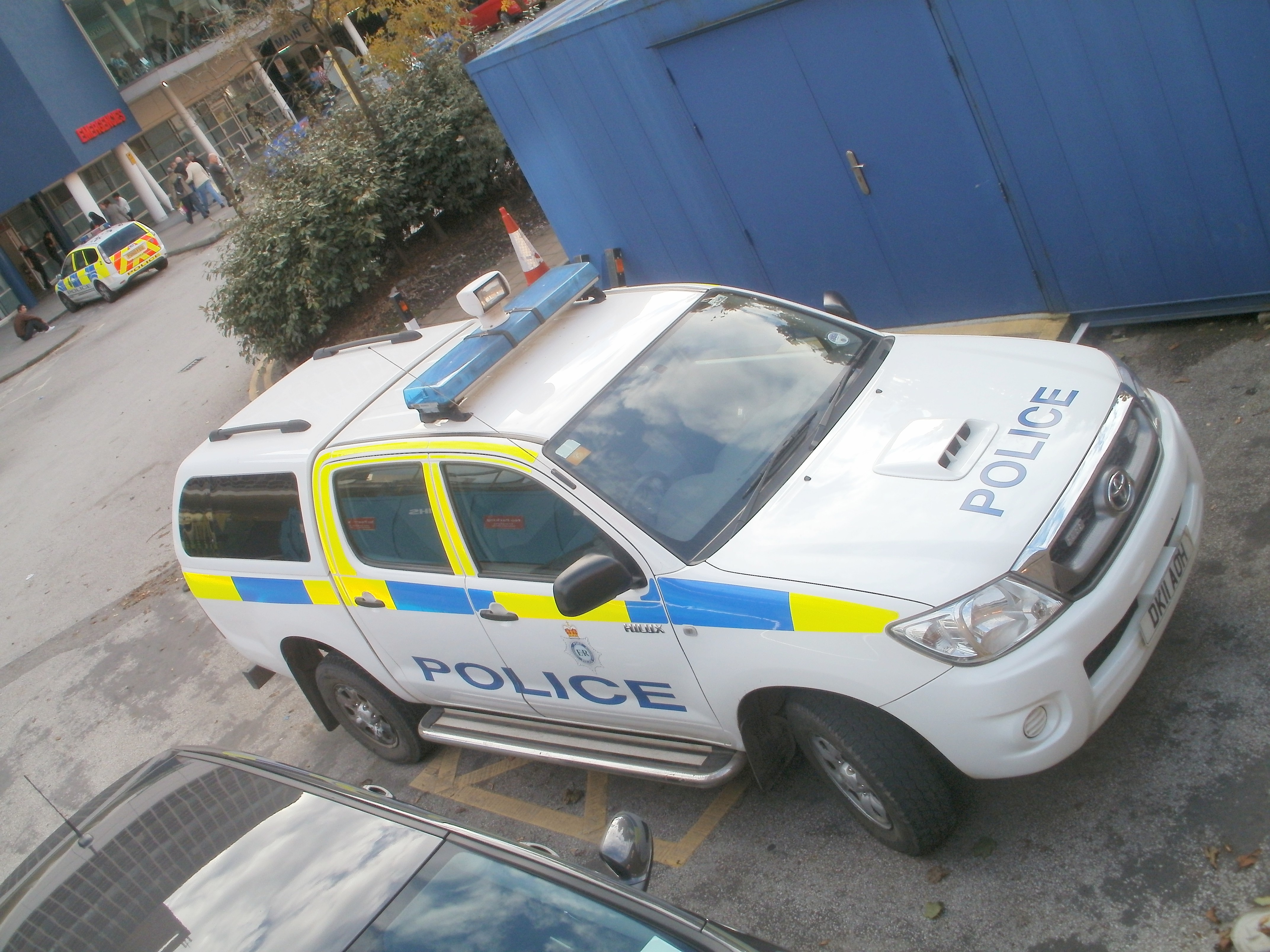 Port of Liverpool Police Vehicle 20 October, 2012